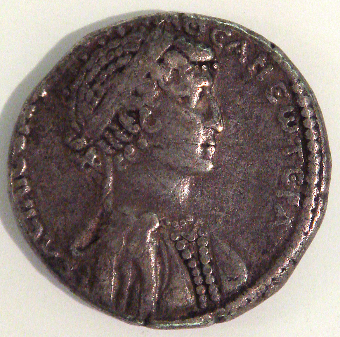 Coin of Seleucis and Pieria in Syria, with Mark Antony on obverse and Cleopatra VII on reverse. Compare with RPC# 4095.